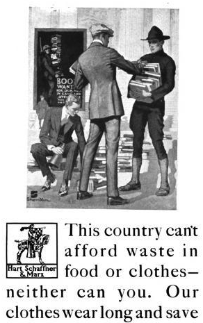 Men suits by Hart Schaffner and Marx depicted by illustrator John E Sheridan. The setting shows a World War I book drive, with civilian suit-wearer donating books to a US Soldier. The caption reads "This country can't afford waste in food or clothes--neither can you. Our clothes wear long and save. Signature shows both a John E Sheridan script and a stylized block signature.